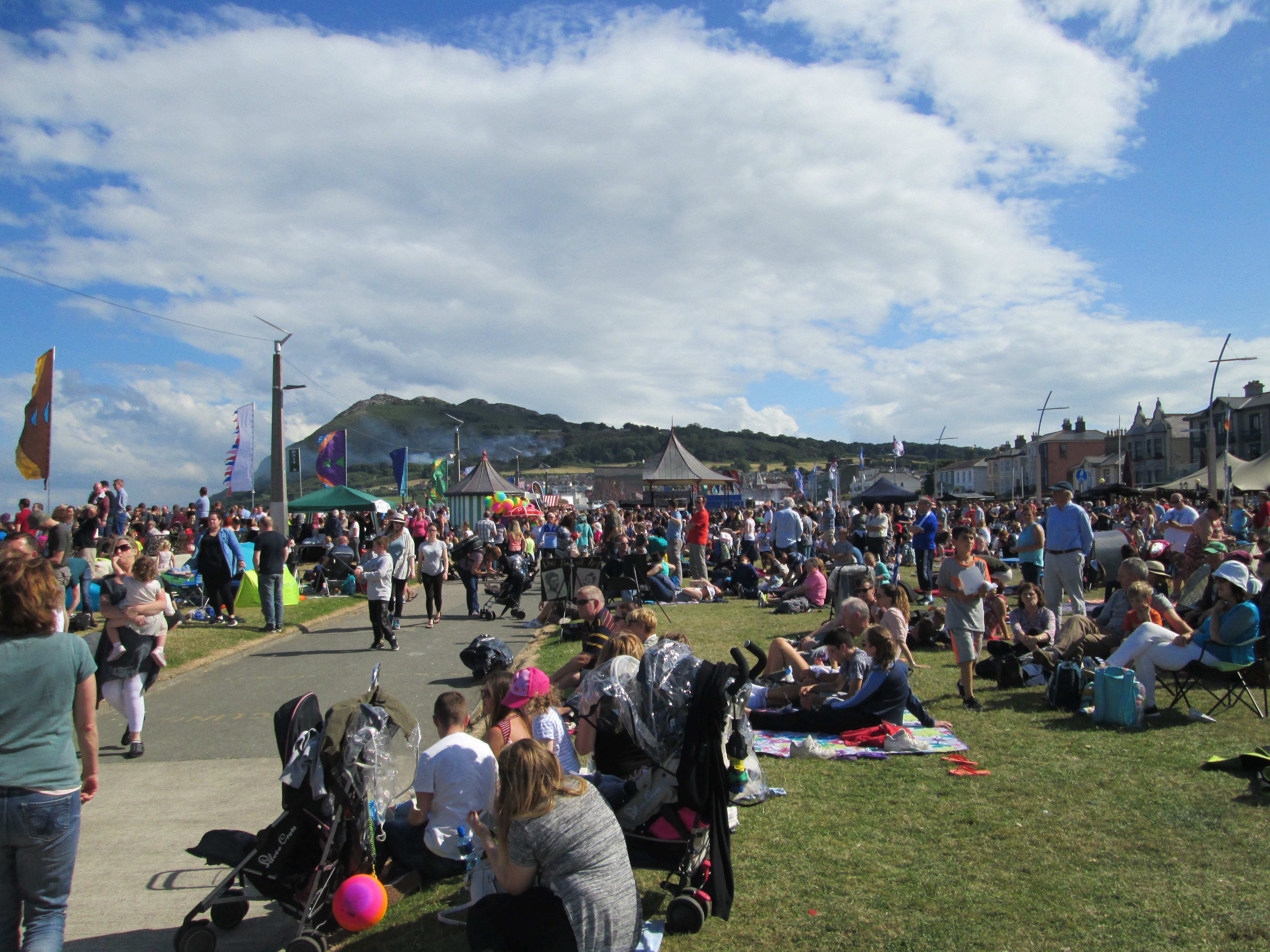 Bray Air Show from Esplanade